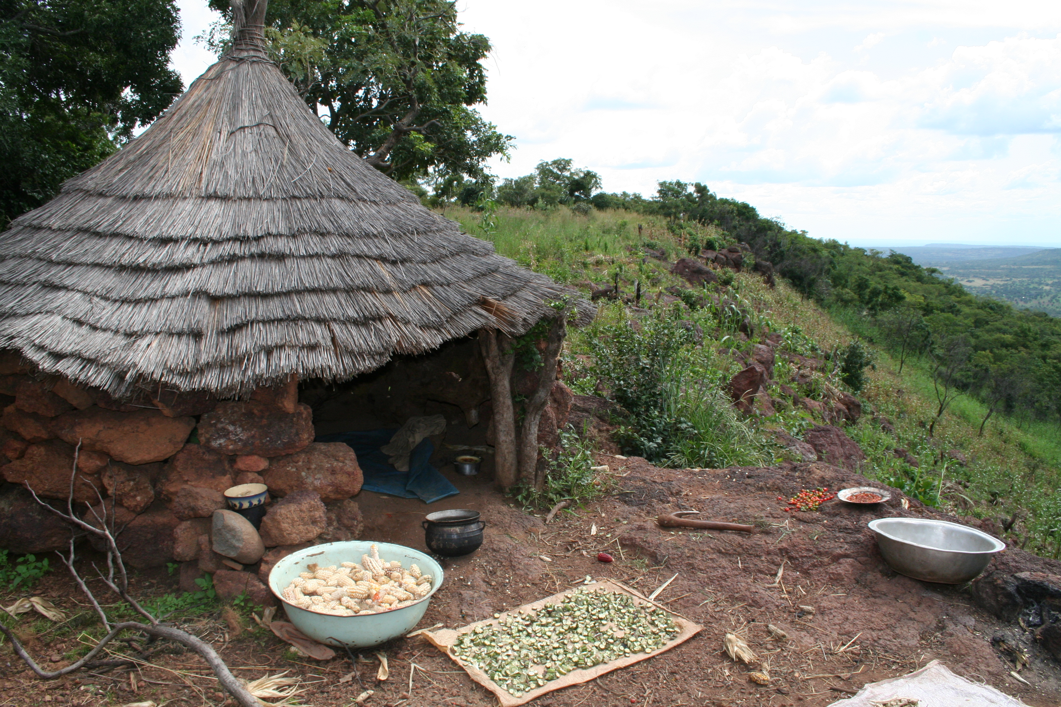 house near the summit of Mt. Tenakourou, Burkina Faso